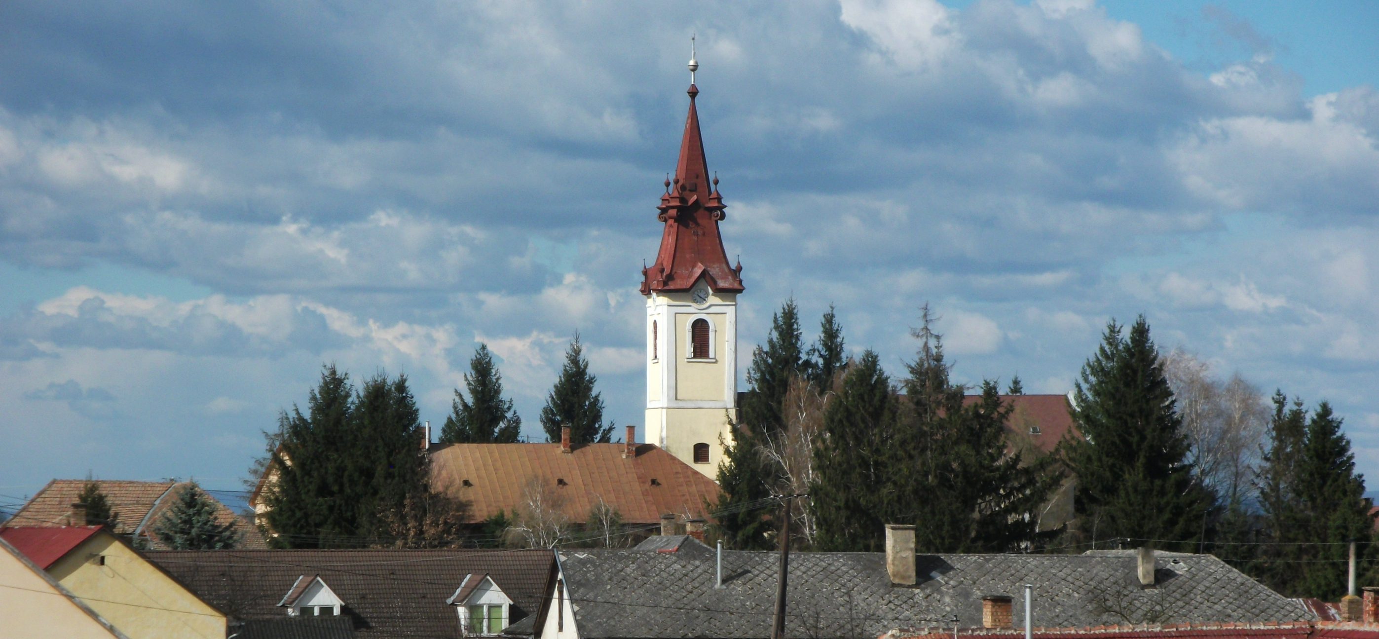 The Reformed Church of Cigánd -east side